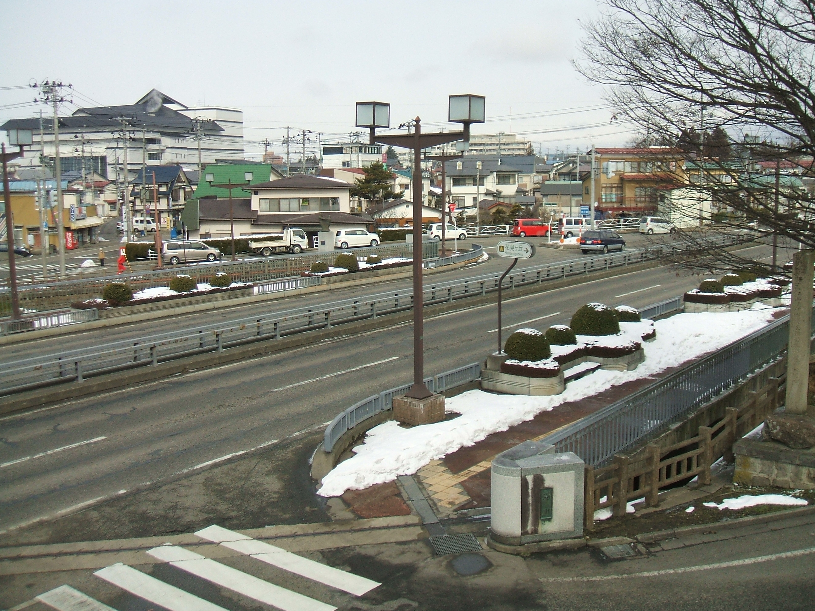 This is a landscape of Odabashi. It's a bridge in Aizuwakamatsu, Fukushima.